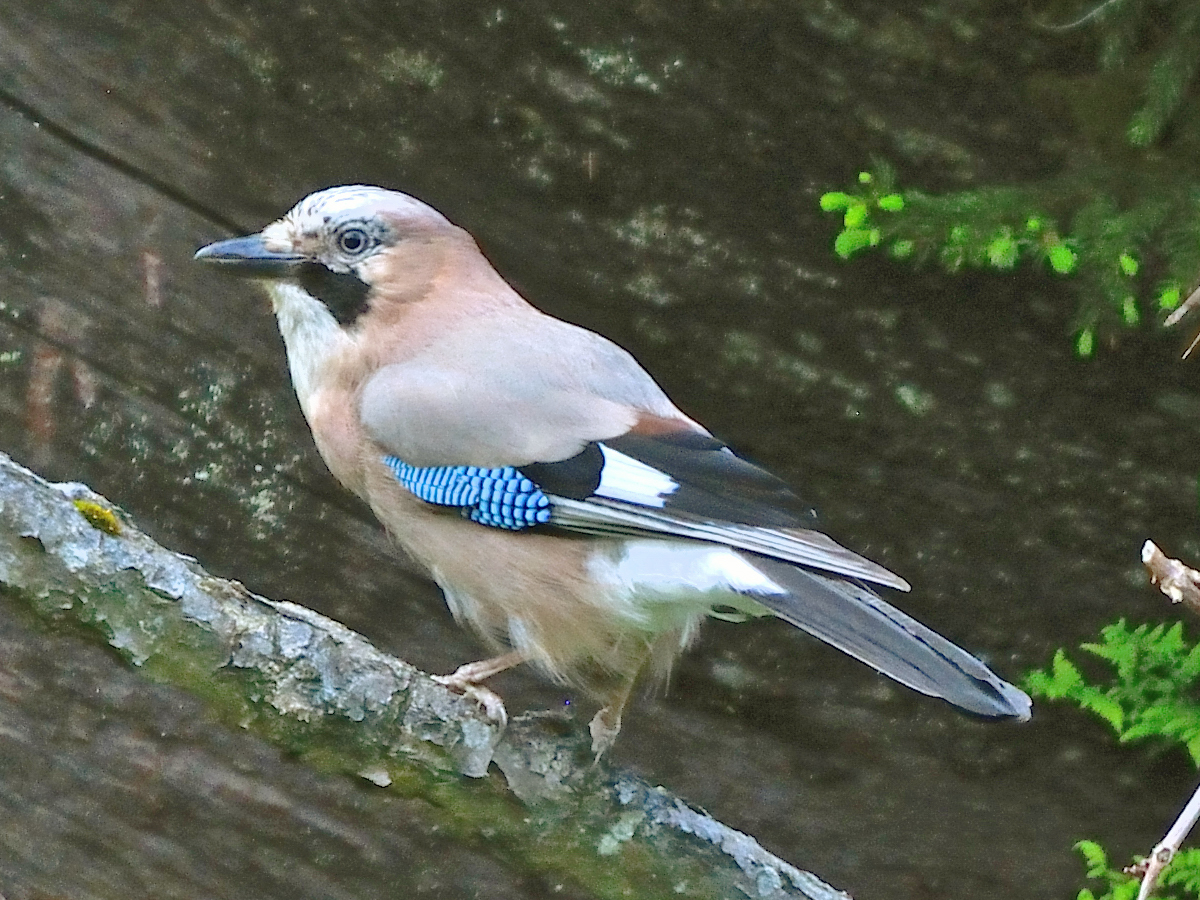 European Jay, Garrulus glandarius, perched on a lookout twig